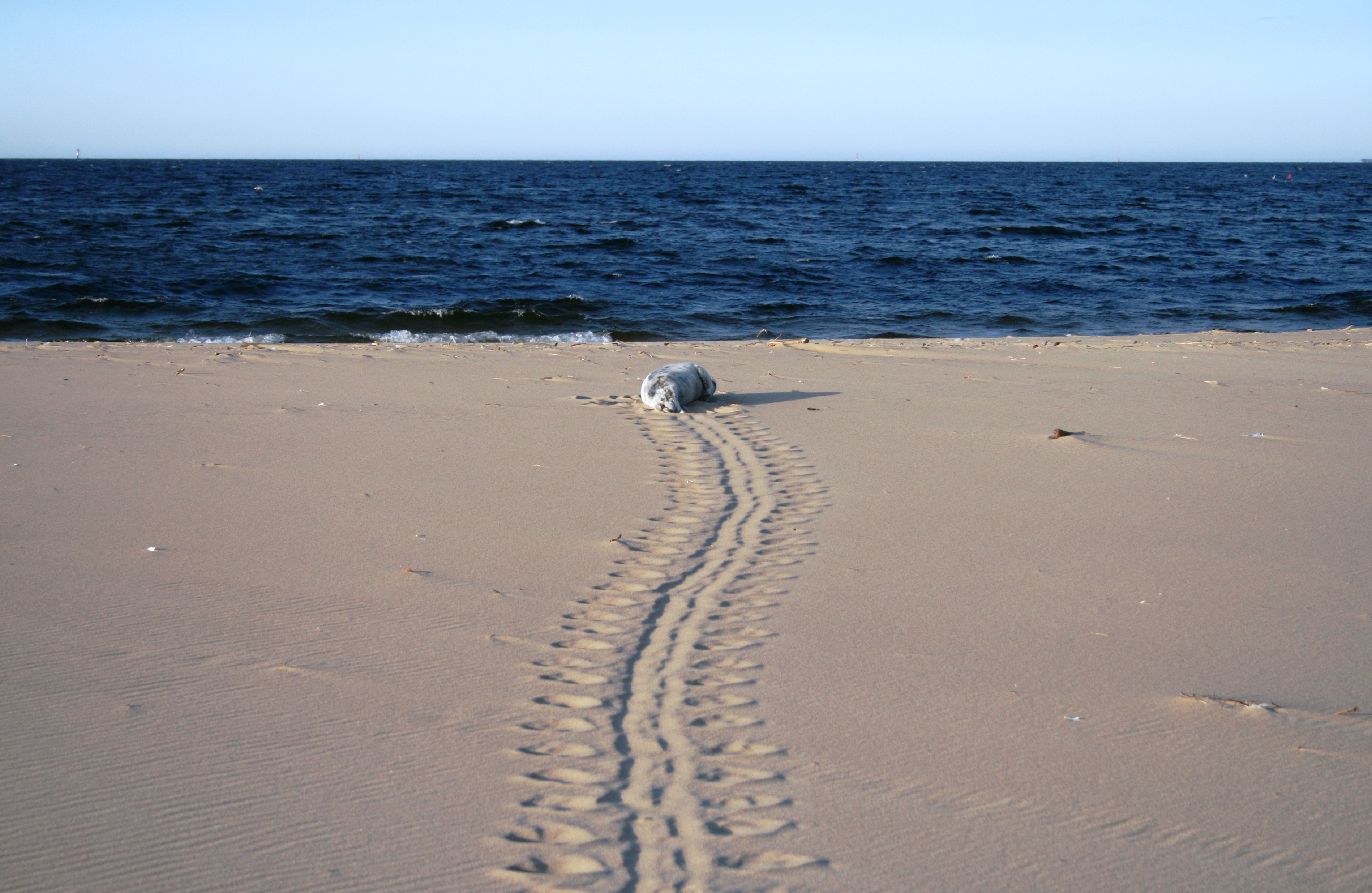 The female of grey seal (Halichoerus grypus) returns to the Gdańsk Bay after resting on the Stogi beach in Gdańsk, Poland.